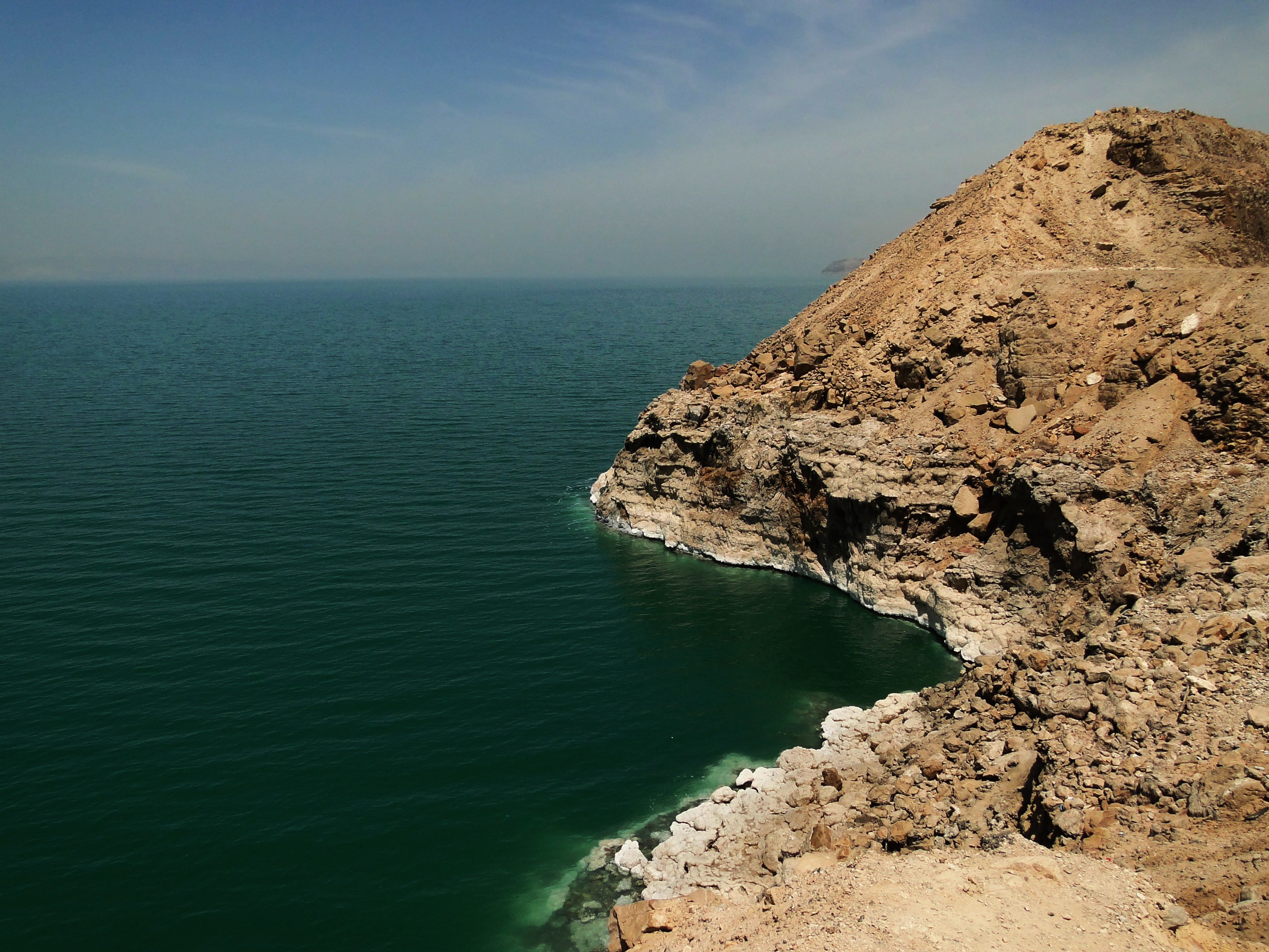 Dead Sea seen from Jordan